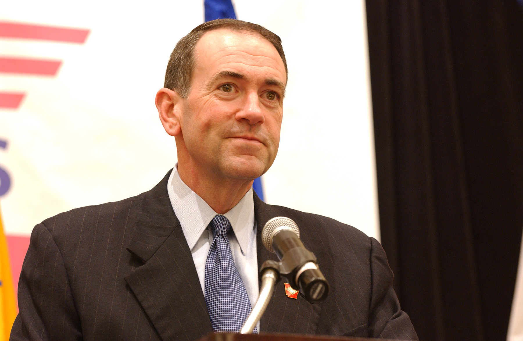 Mike Huckabee speaking at the second annual Steps to a HealthierUS Summit.